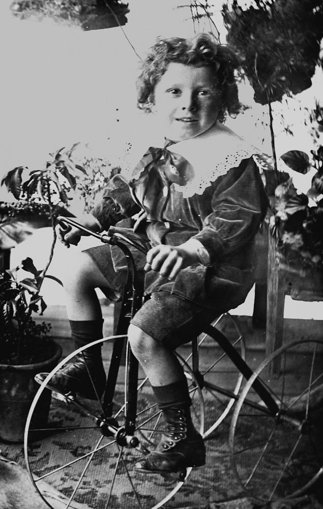 Young boy on a tricycle, 1900-1910 Young boy on a tricycle on a rug, about 1905. He wears a lace collar with a bow, a short trouser suit with puffed sleeves, socks and buttoned boots. The tricycle is made of metal with metal wheels. Some pot plants can be seen in the background.